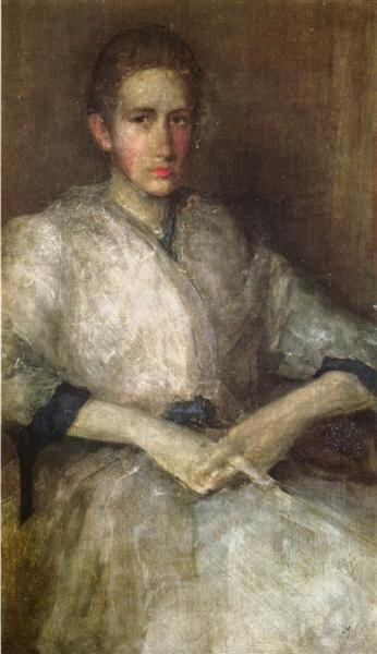 Portrait of Ellen Sturgis Hooper. (This artwork is in the public domain (not copyrighted) because all artworks by James Abbott McNeill Whistler are in the public domain.)